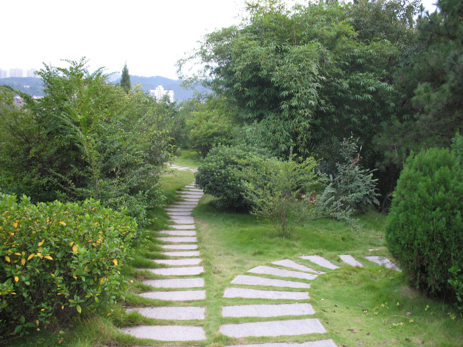 Hill top park of Dongfeng High School